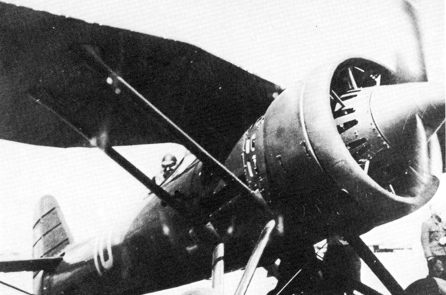 Polish fighter P.11a in September 1939